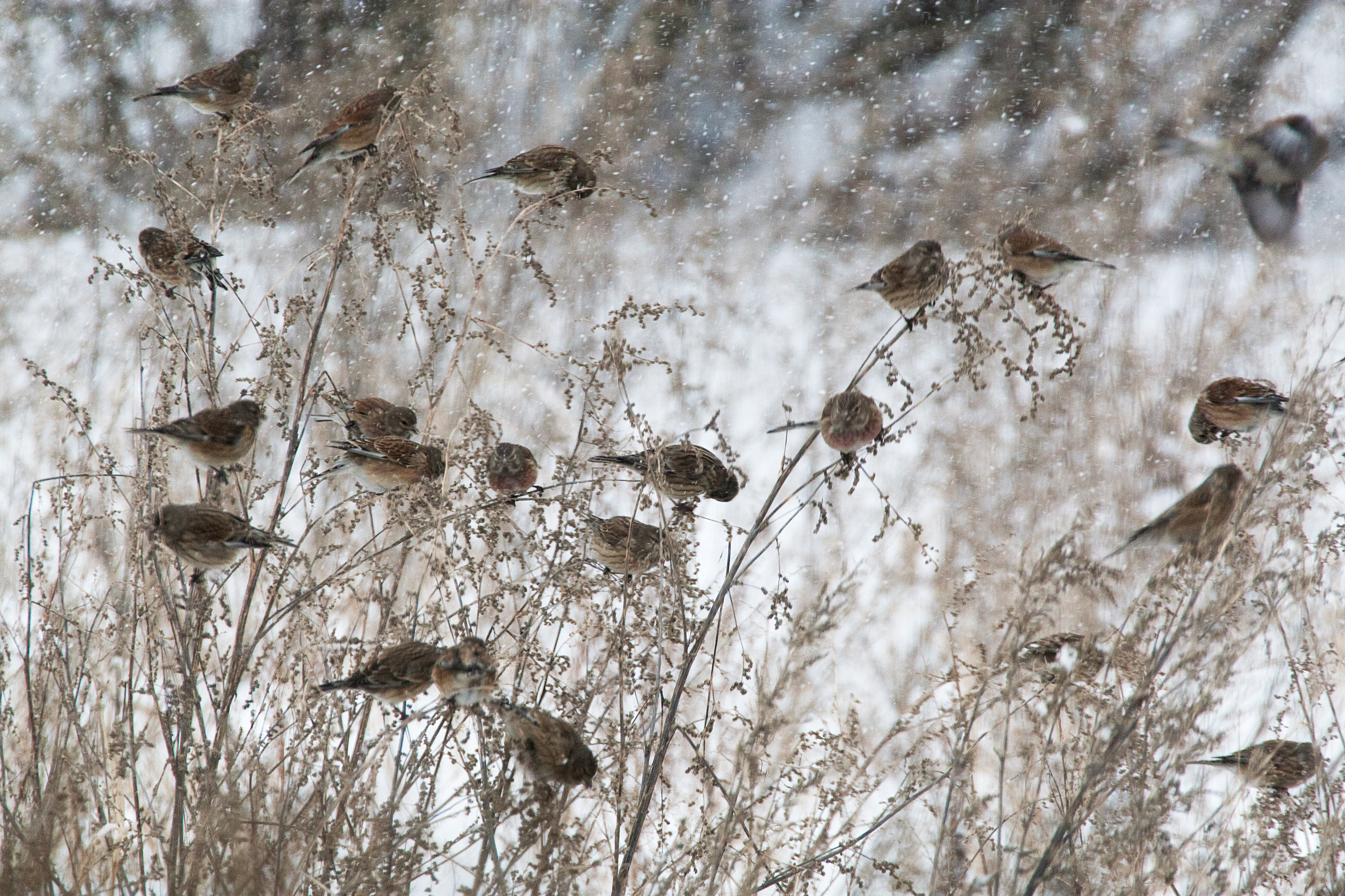 The The common linnet, Lodz(Poland)